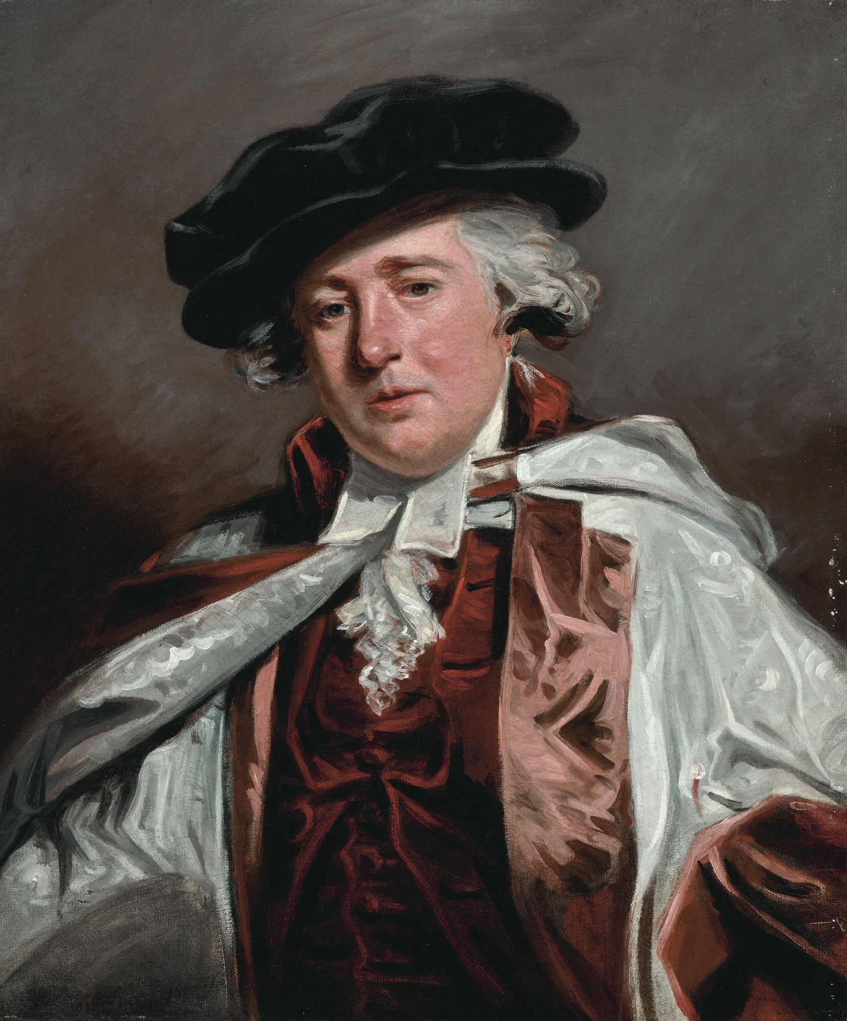 Edmund Ayrton oil on canvas 76.2 x 63.5 cm circa 1784